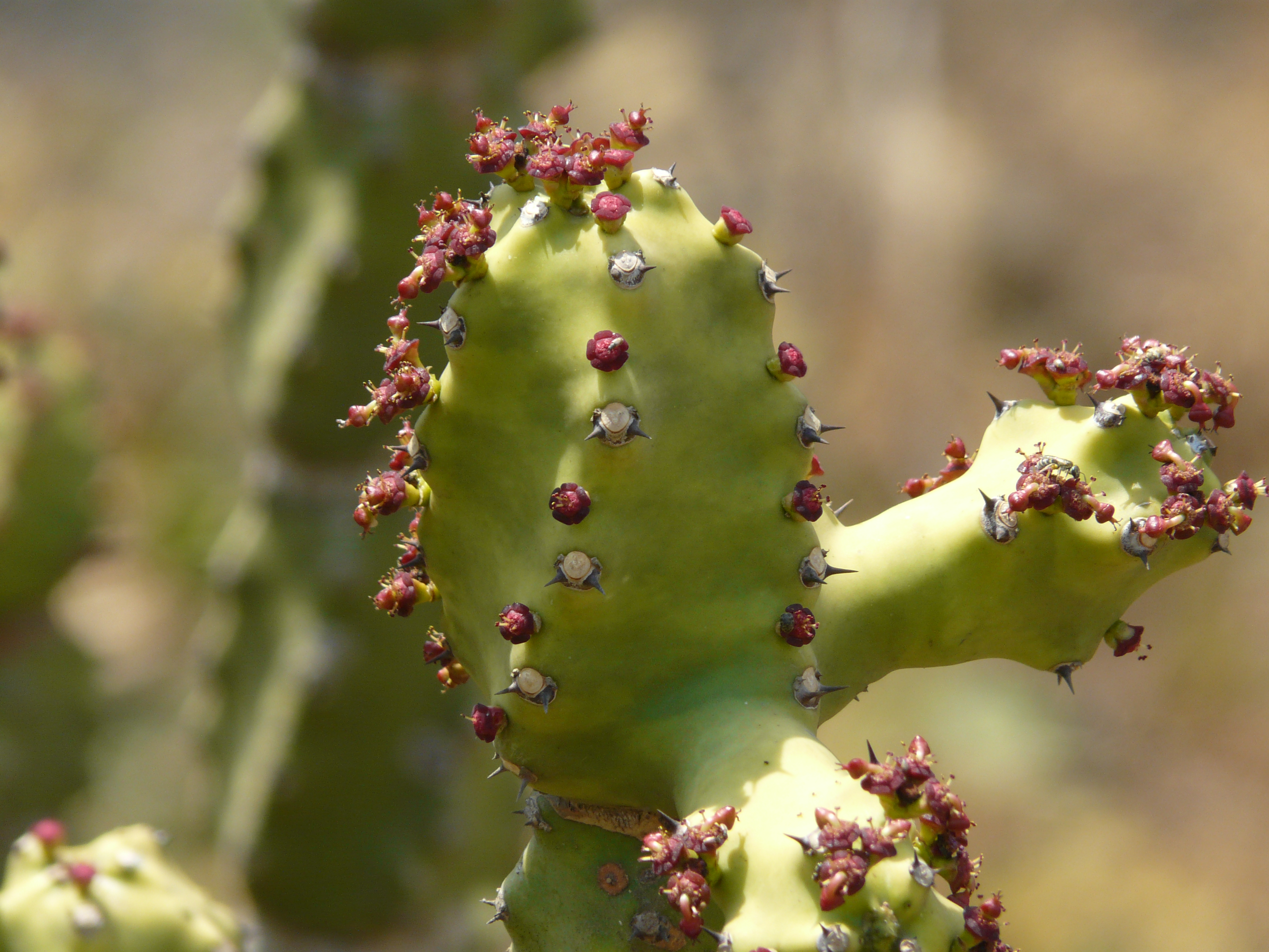 Euphorbiaceae (castor, euphorbia, or spurge family) » Euphorbia neriifolia L. yoo-FOR-bee-uh -- named for Euphorbus, Greek physician to Juba II ... Dave's Botanary ner-ee-eye-FOH-lee-uh -- oleander-leaved (also spelled nerifolia) ... Dave's Botanary commonly known as: five-tubercled spurge, hedge euphorbia, Indian spurge tree, milk spurge, oleander spurge • Assamese: সৰু সিজু sarau siju • Bengali: মনসাসিজ mansa-sij • Gujarati: ભુંગરા થોર bhungara thor, થોર thor, થૂવર thuvar • Hindi: सेहुण्ड sehund, सीज sij, थूहर thuhar • Kannada: ಎಲೆಕಳ್ಳಿ elekalli, ಮಾಲೆಕಳ್ಳಿ malekalli • Malayalam: ഇലക്കള്ളി ilakkalli • Manipuri: তেঙনৌ tengnou • Marathi: मिंगुट mingut, पालेहुरा palehura, वई निवडुंग vayi nivadunga • Oriya: ଗୁଡ଼ା gurda • Sanskrit: सेहुण्ड sehunda, स्नुही snuhi • Tamil: இலைக்கள்ளி ilai-k-kalli, நாத்தாங்கி na-t-tanki • Telugu: ఆకుజెముడు aku-jemudu • Tibetan: si ri kha nda, snu-ha • Urdu: تهوهر thuhar Native to: India, Myanmar, Malaysia, New Guinea; widely cultivated References: Flowers of India • Flora of Pakistan • NPGS / GRIN • ENVIS - FRLHT